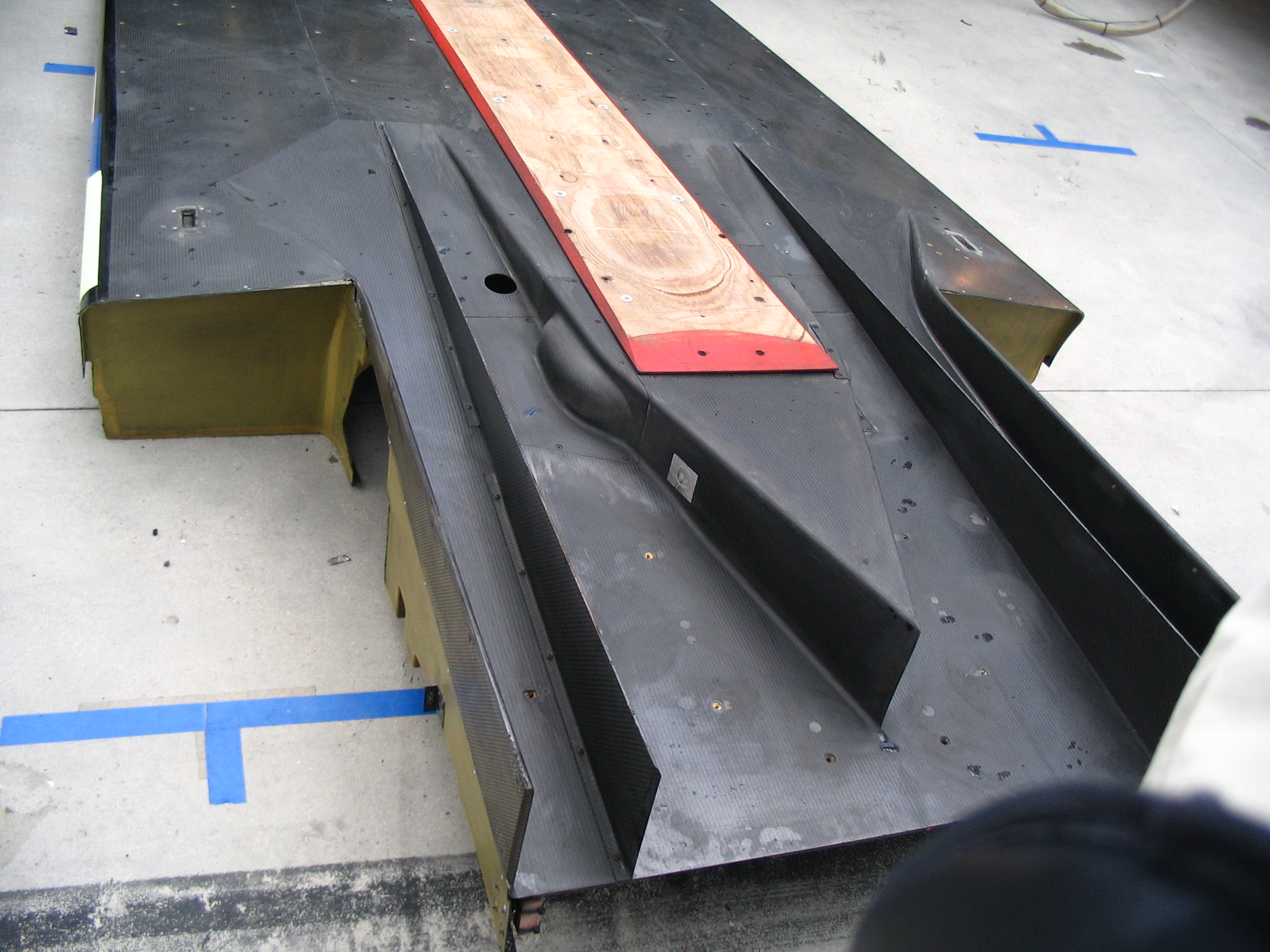 Le Mans Prototype rear diffuser